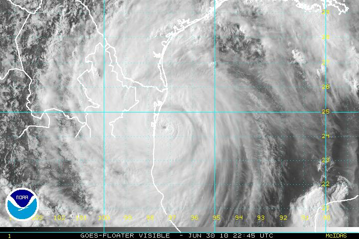 Visible satellite view of Hurricane Alex (2010) near landfall in northeastern Mexico.